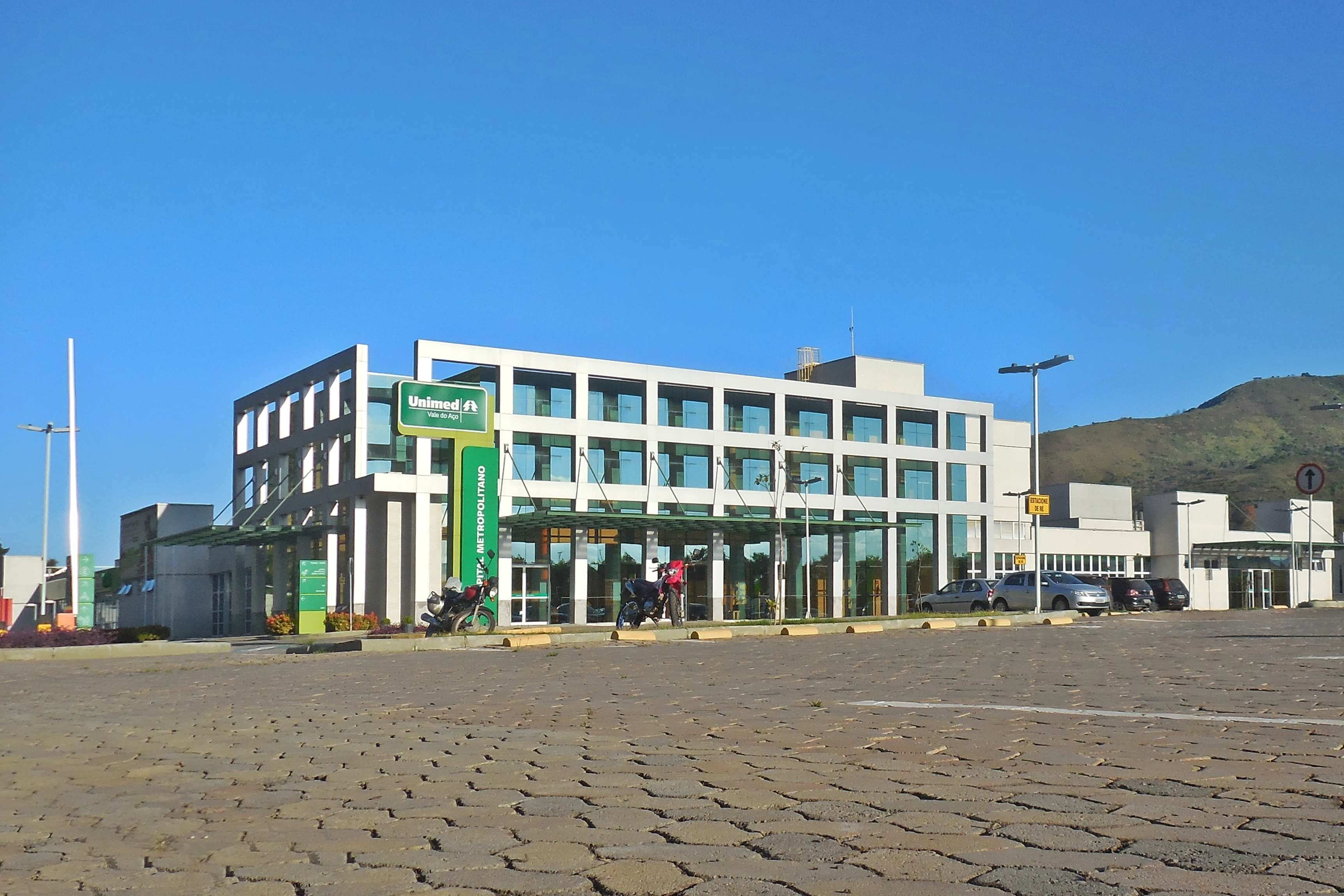 Partial view of the Metropolitano Unimed Vale do Aço Hospital, in Coronel Fabriciano, Minas Gerais, Brazil.